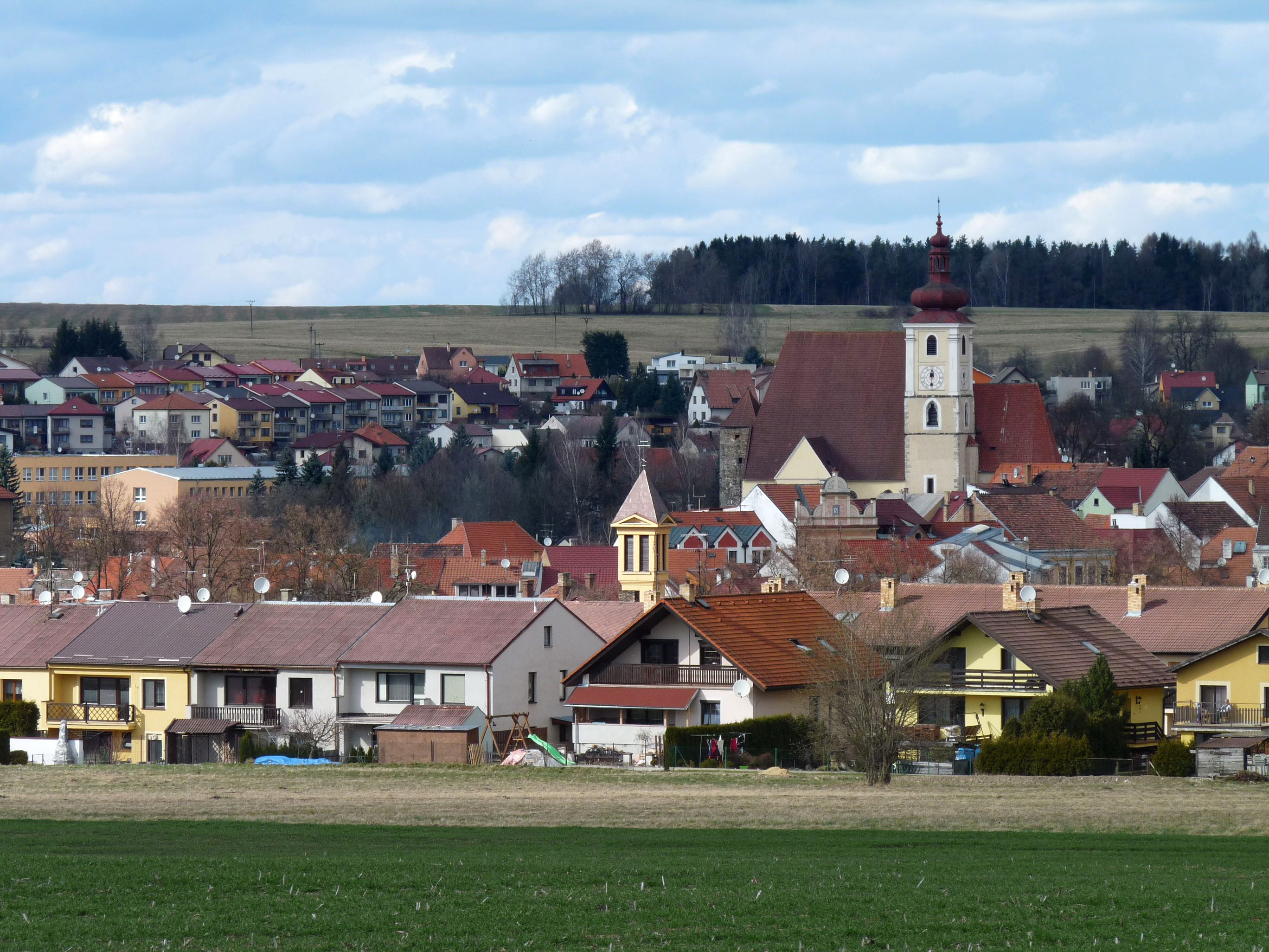 Church of the Assumption of the Virgin Mary in Trhové Sviny, České Budějovice District, Czech Republic.